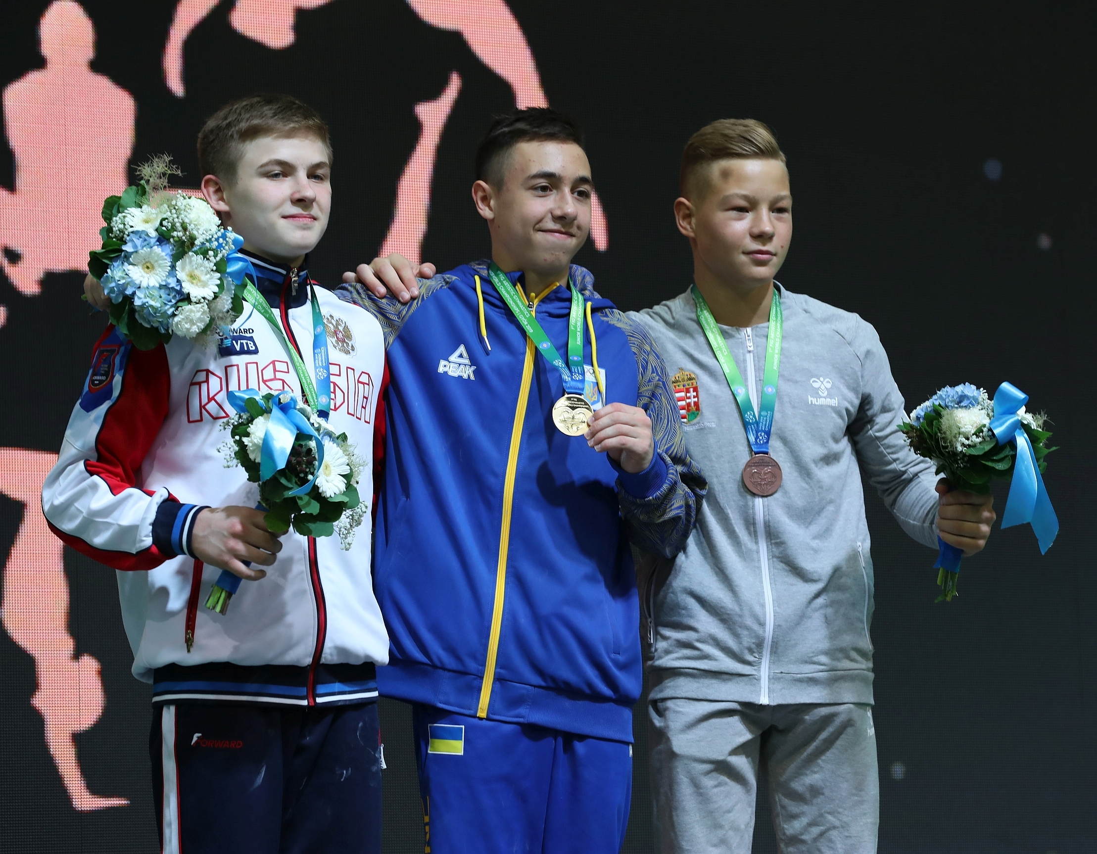 Horizontal bar victory ceremony during the boys' apparatus finals at the 1st FIG Artistic Gymnastics Junior World Championships on 30 June 2019 in Győr, Hungary. Depicted: Ivan Gerget. Krisztián Balázs. Nazar Chepurnyi.